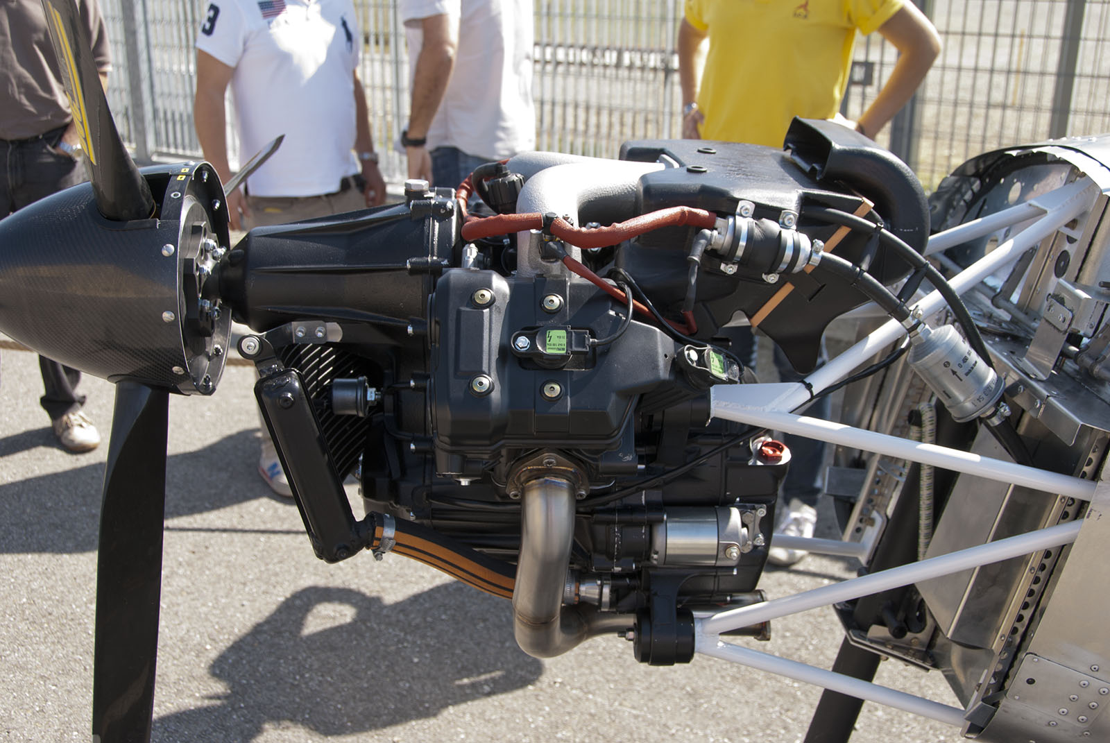 ICP M09 aviation engine. Four stroke, two cylinders, four valve, 1225 cm3, 115HP. Image shoot at ICP premises in Castelnuovo Don Bosco (Italy)